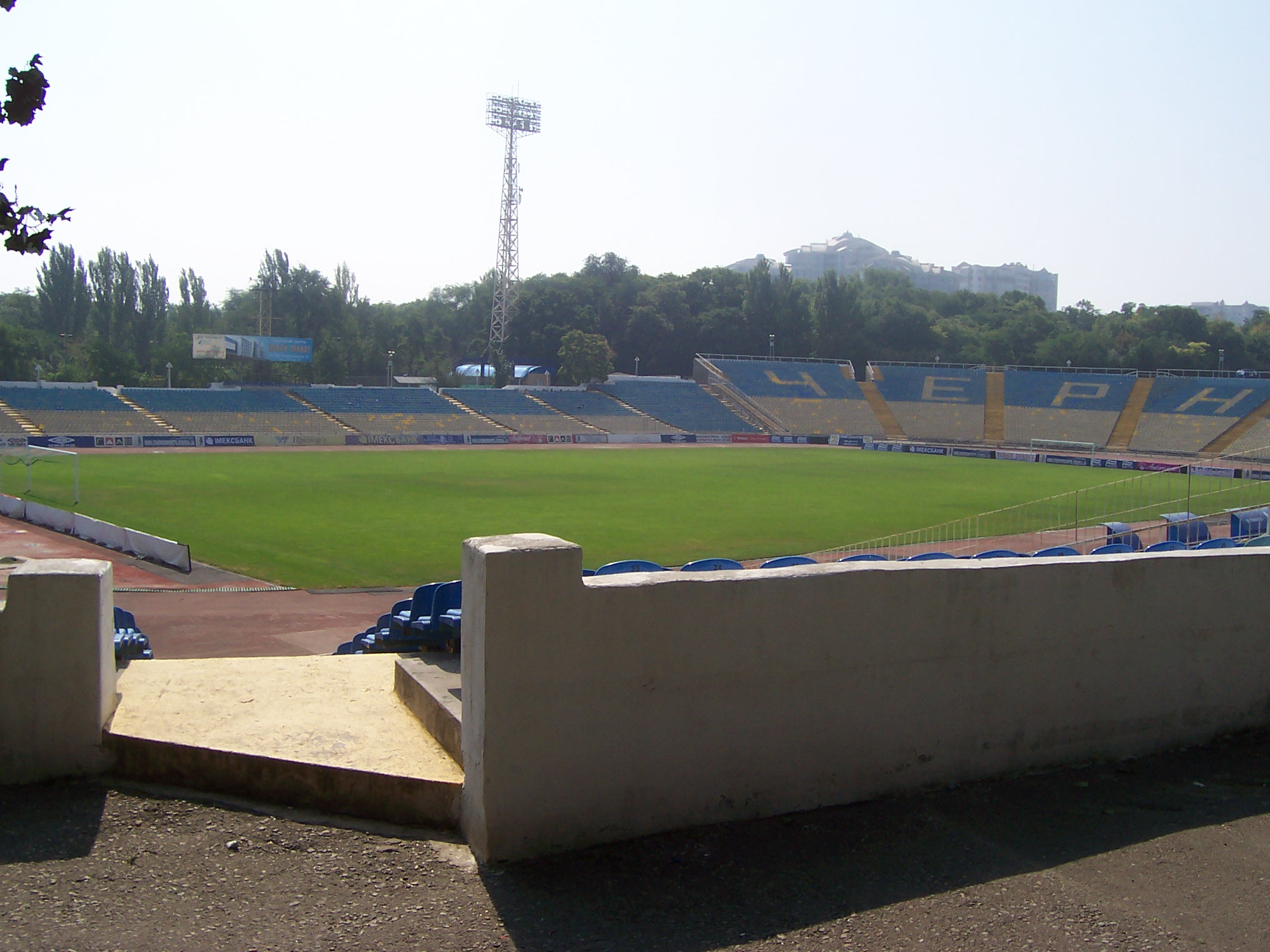 Chornomorets Stadium in Odesa